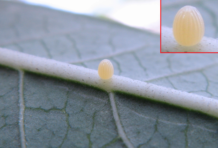 Single Danaus plexippus egg on the underside of a milkweed leaf.